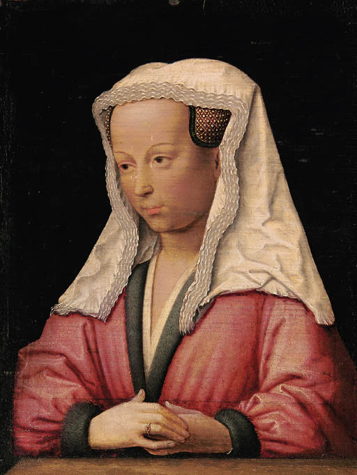 Portrait of Bonne d'Artois, Duchess of Burgundy, half-length, in a red fur-lined coat and a white headdress, oil on panel. Extract of Christie's notice : According to Max J. Friedländer (Early Netherlandish Painting, I, ed. N. Veronee-Verhaegen, Leyden, 1967, p. 66), a sixteenth-century portrait formerly in the Gemäldegalerie der Staatlichen Museen, Berlin-Dahlem, which coincides precisely with a drawing in the Arras Codex, Bibliothèque municipale, Arras, would appear to be the closest interpretation of the lost original. The present painting appears to derive from that early copy." Other copies : 3 paintings : (1) Berlin, Staatliche Museen zu Berlin, Gemäldegalerie, Inventar-Nr. 528C, (2) Museo de Cádiz, Inventario CE20301; (3) Lisbon, Museu Nacional de Arte Antiga; 1 drawing in the Recueil d'Arras (Médiathèque d'Arras, Ms 266 fol.62). See also here and here